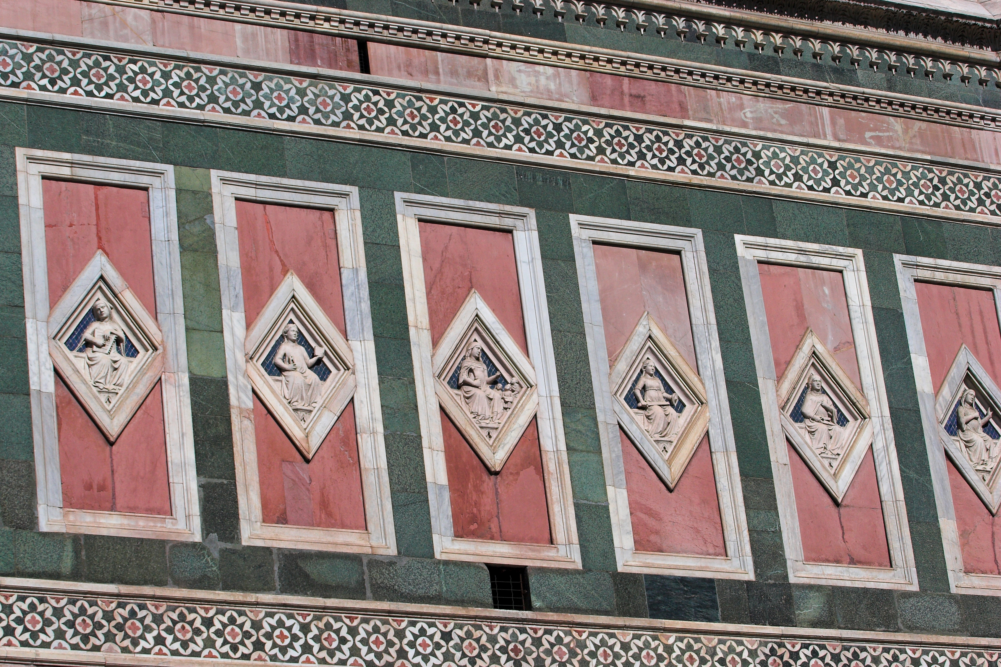 Detail of the Giotto's bell tower in Florence, Italy. The full sized image shows the extremely detailed surface of the tower made of red, white and green marble. Photo by Thermos.